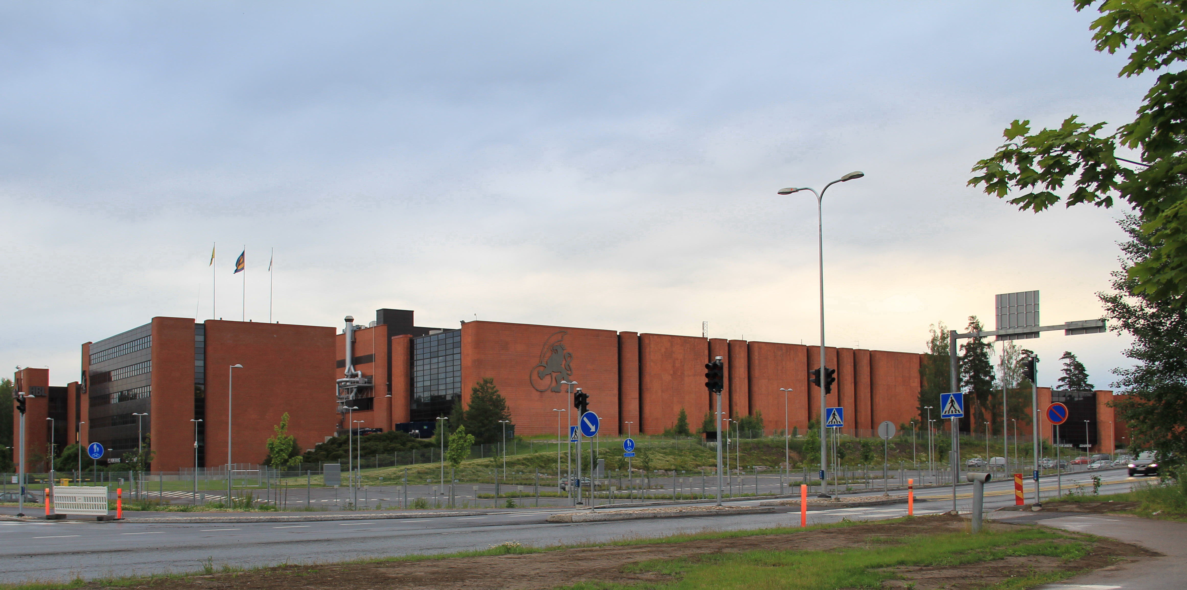 Sanomala, Martinlaakso, Vantaa, Finland. Sanomala printing plant of Sanoma Plc media group. Originally completed in 1977, architect Kalle Vartola.